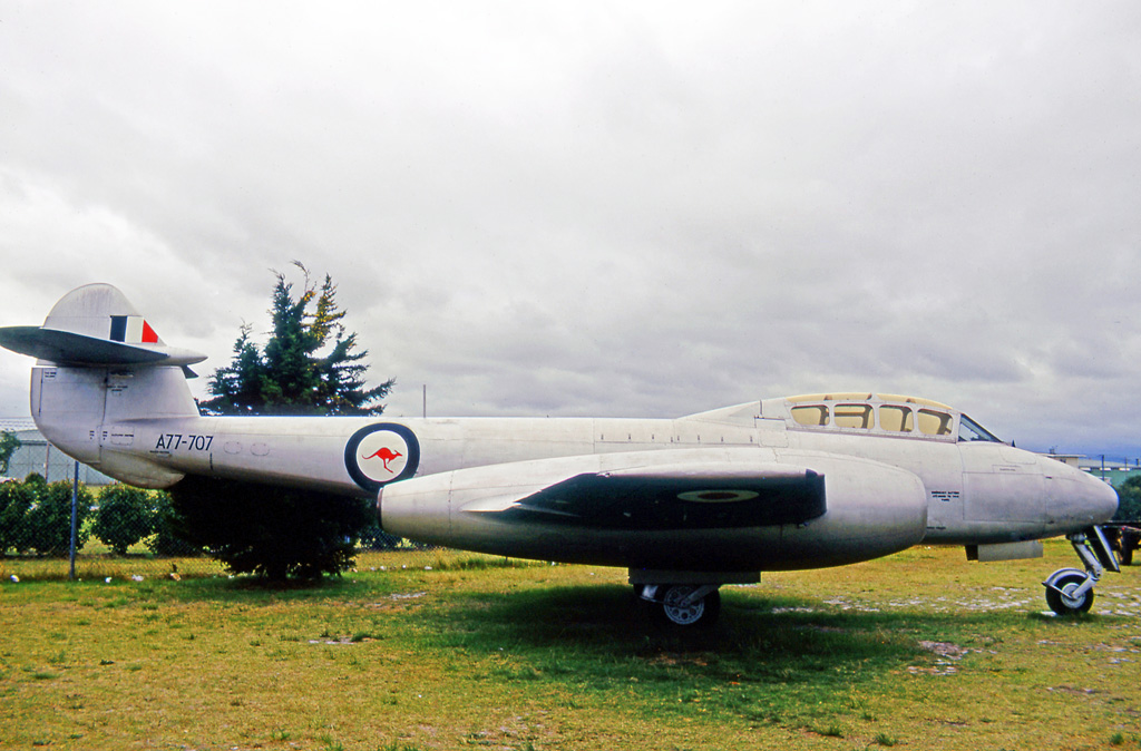 Gloster Meteor T.7 A77-707 ex No. 23 Squadron (City of Brisbane) RAAF